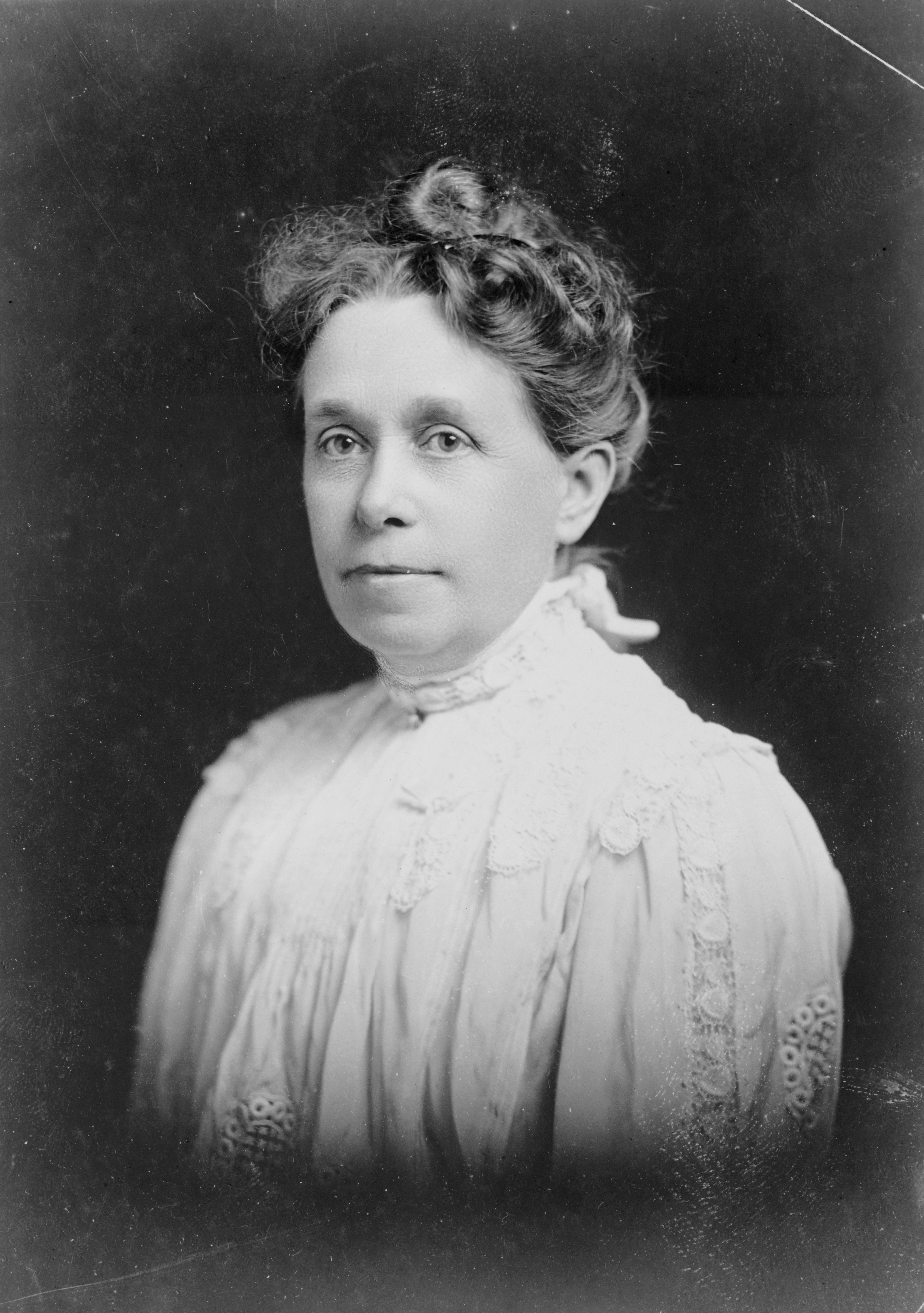 Anna Adams Gordon, head-and-shoulders portrait, facing left